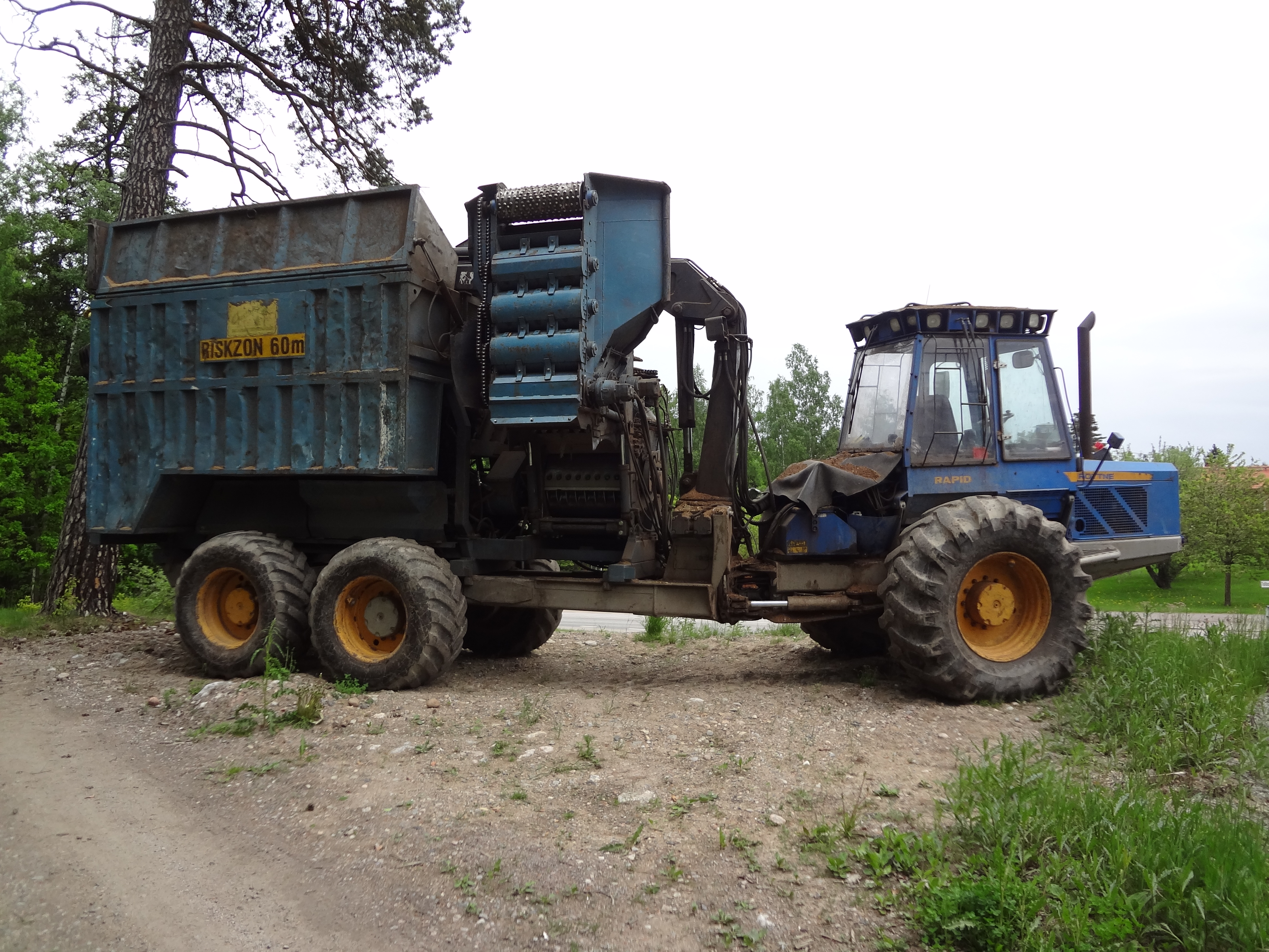 Rottne Rapid